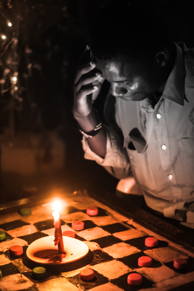 This is an image with the theme "Play" from: Tanzania